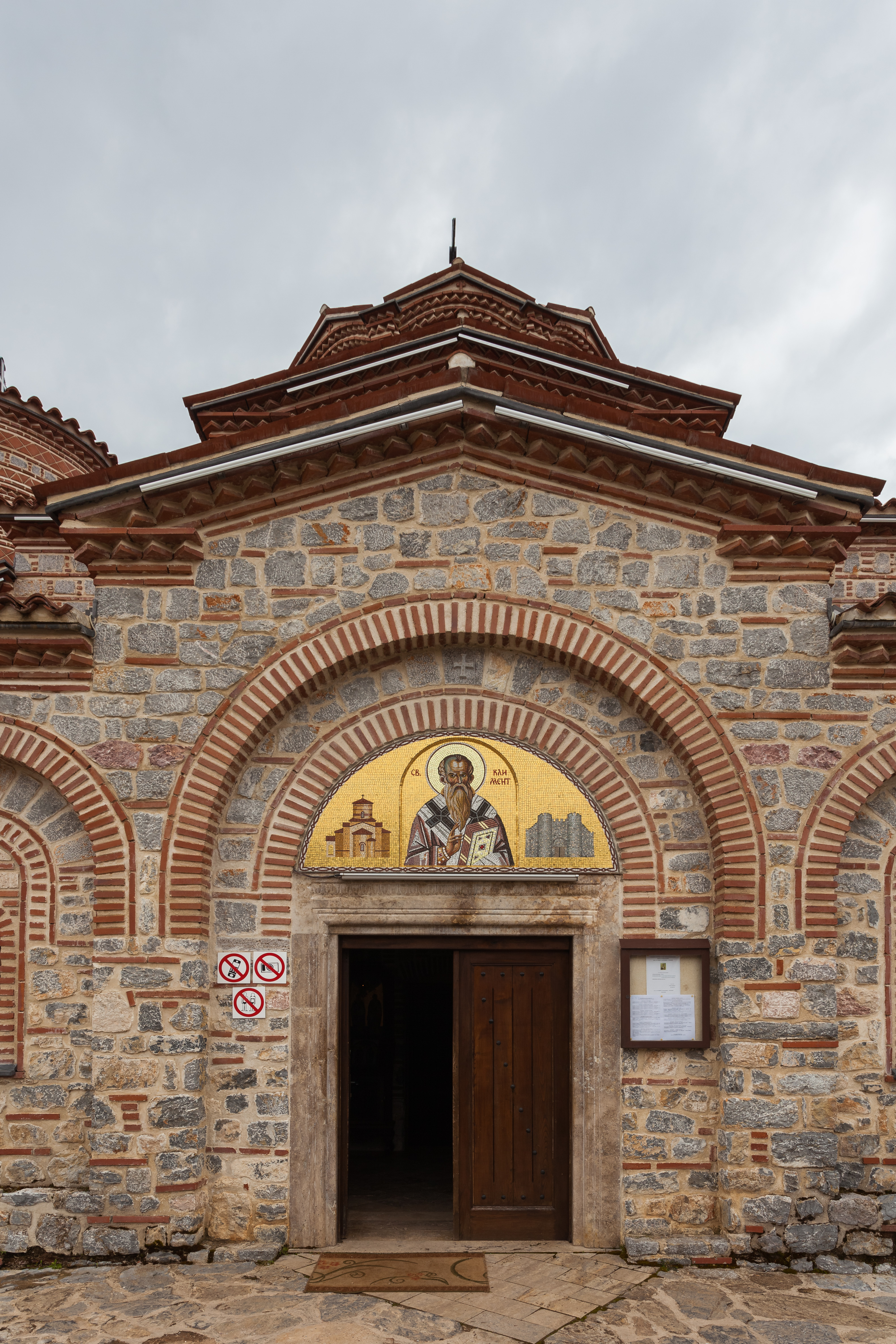 St Panteleimon church, Ohrid, Macedonia